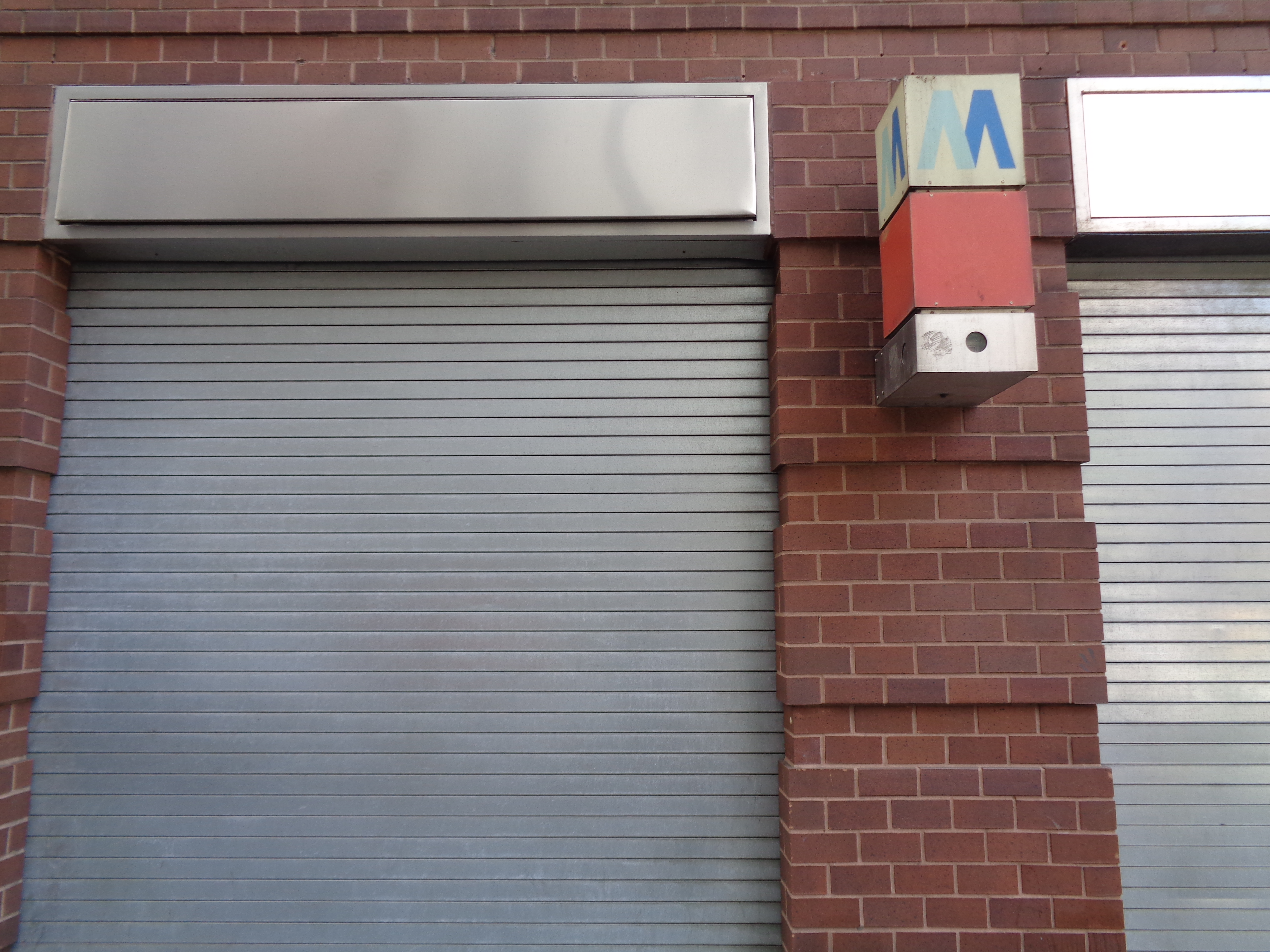 A closed entrance/exit to the 50th Street station of the IND Eighth Avenue Line, at the southeast corner of 8th Avenue and West 52nd Street. The exit (via the left garage door) led to the Uptown/Queens platforms. The door to the right was recently a Santander bank. Both doors are located within "The Ellington", an apartment building at 260 West 52nd Street.